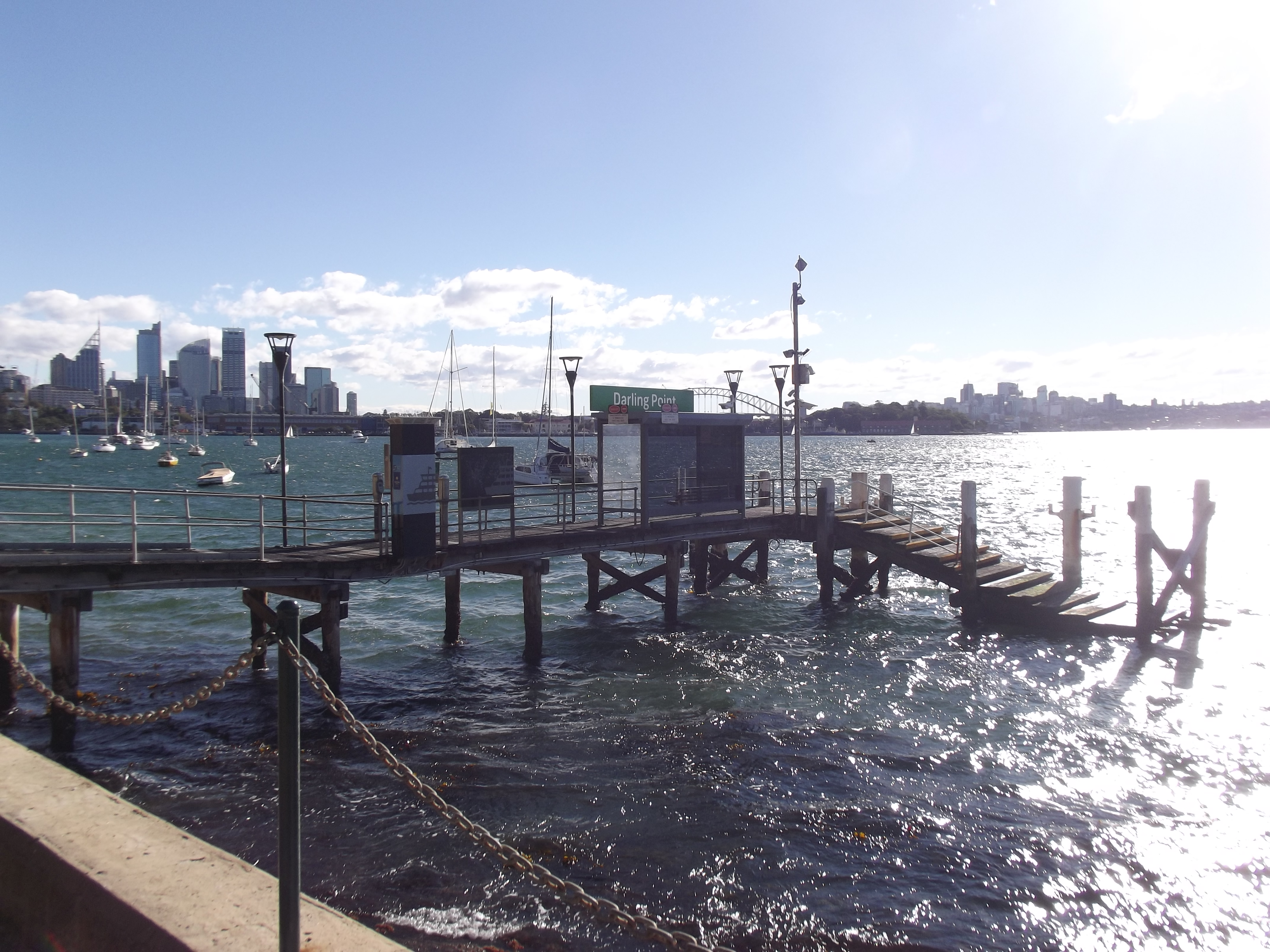 Darling Point ferry wharf photographed in June 2018 from the eastern side of McKell Park facing the Harbour Bridge